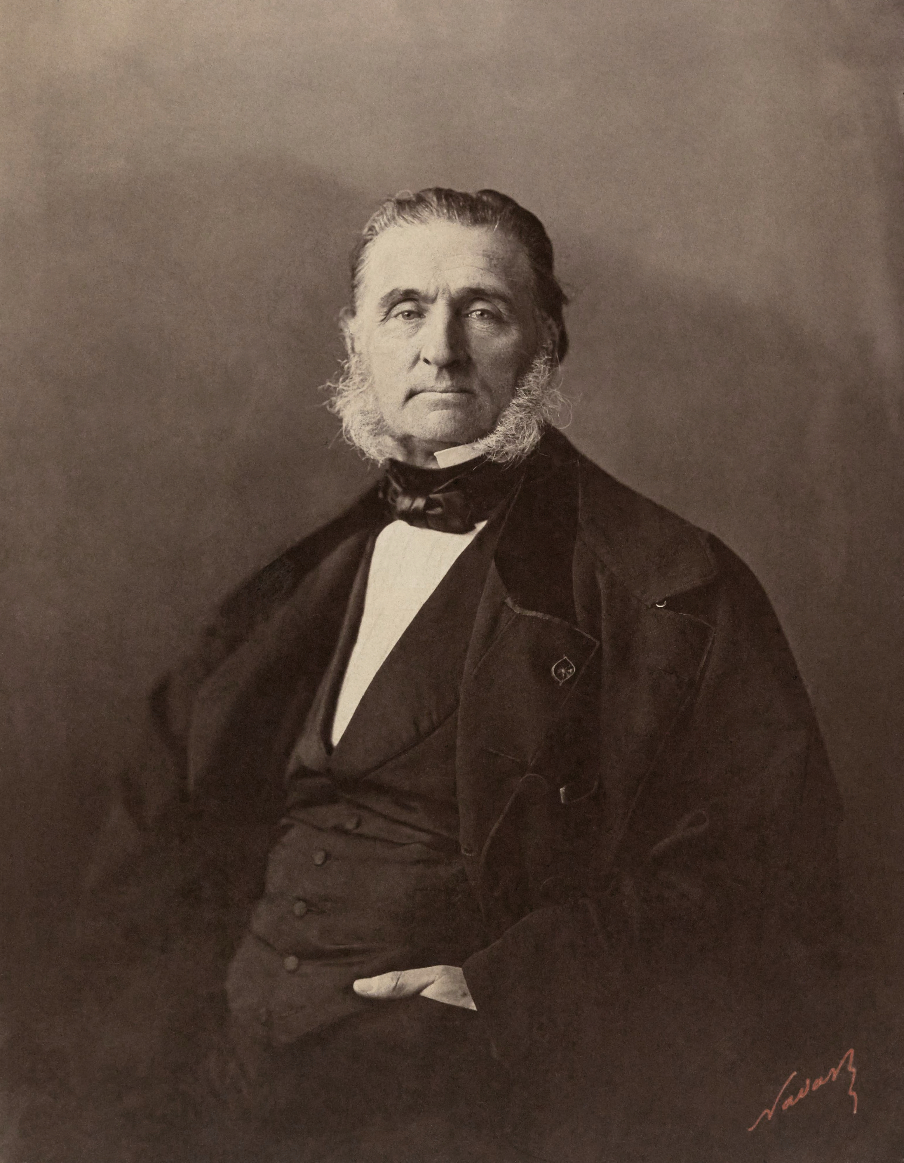 Armand Trousseau (1801 - 1867), french internist and politician.